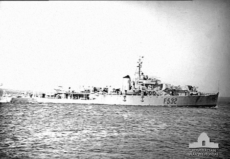 Photograph of Australian frigate HMAS Macquarie.